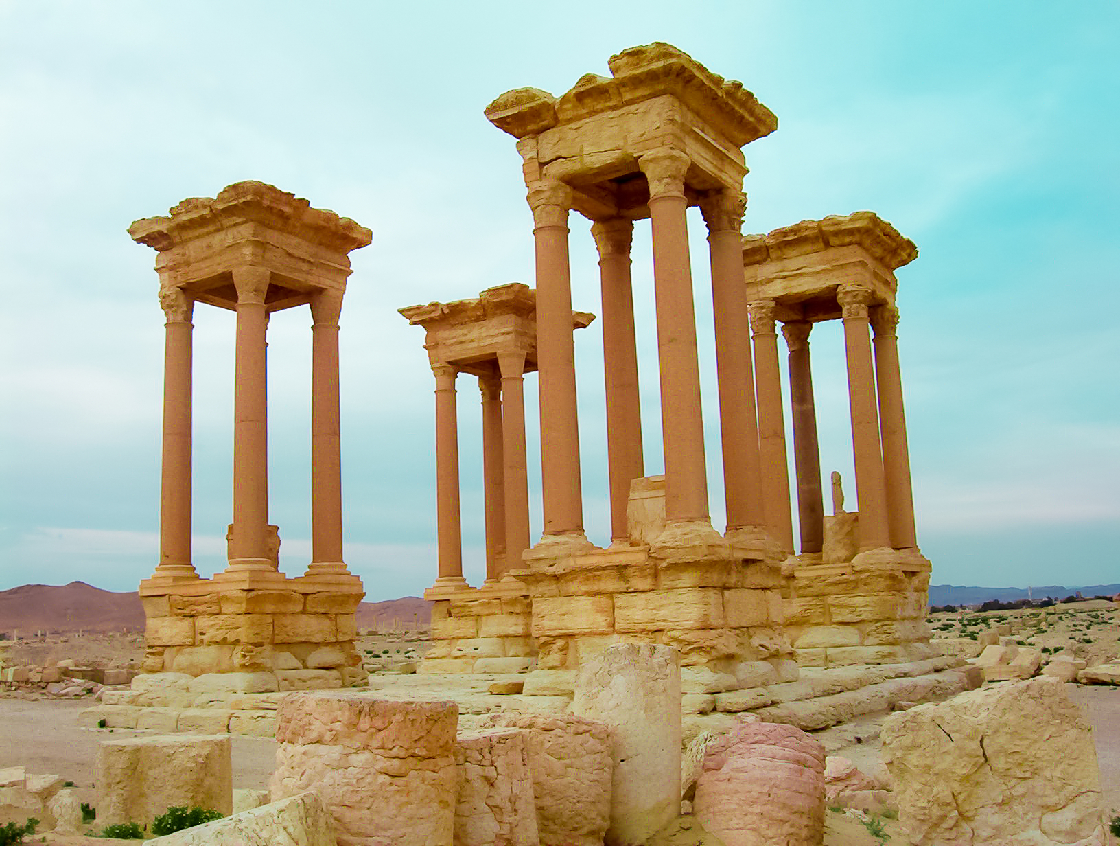 Perhaps the most striking construction at Palmyra in Syria, the Tetrapylon marks the second pivot in the route of the colonnaded street. It consists of a square platform bearing at each corner a tight grouping of four columns. Each of the four groups of pillars supports 150,000kg of solid cornice. A pedestal at the centre of each quartet originally carried a statue. Only one of the 16 pillars is of the original pink granite (probably brought from Aswan in Egypt); the rest are a result of some rather hasty reconstruction carried out from the 1960s onwards by the Syrian Antiquities Department. From here the main colonnaded street continues northwest, while smaller pillared transverse streets lead southwest to the agora and northeast to the Temple of Baal Shamin.